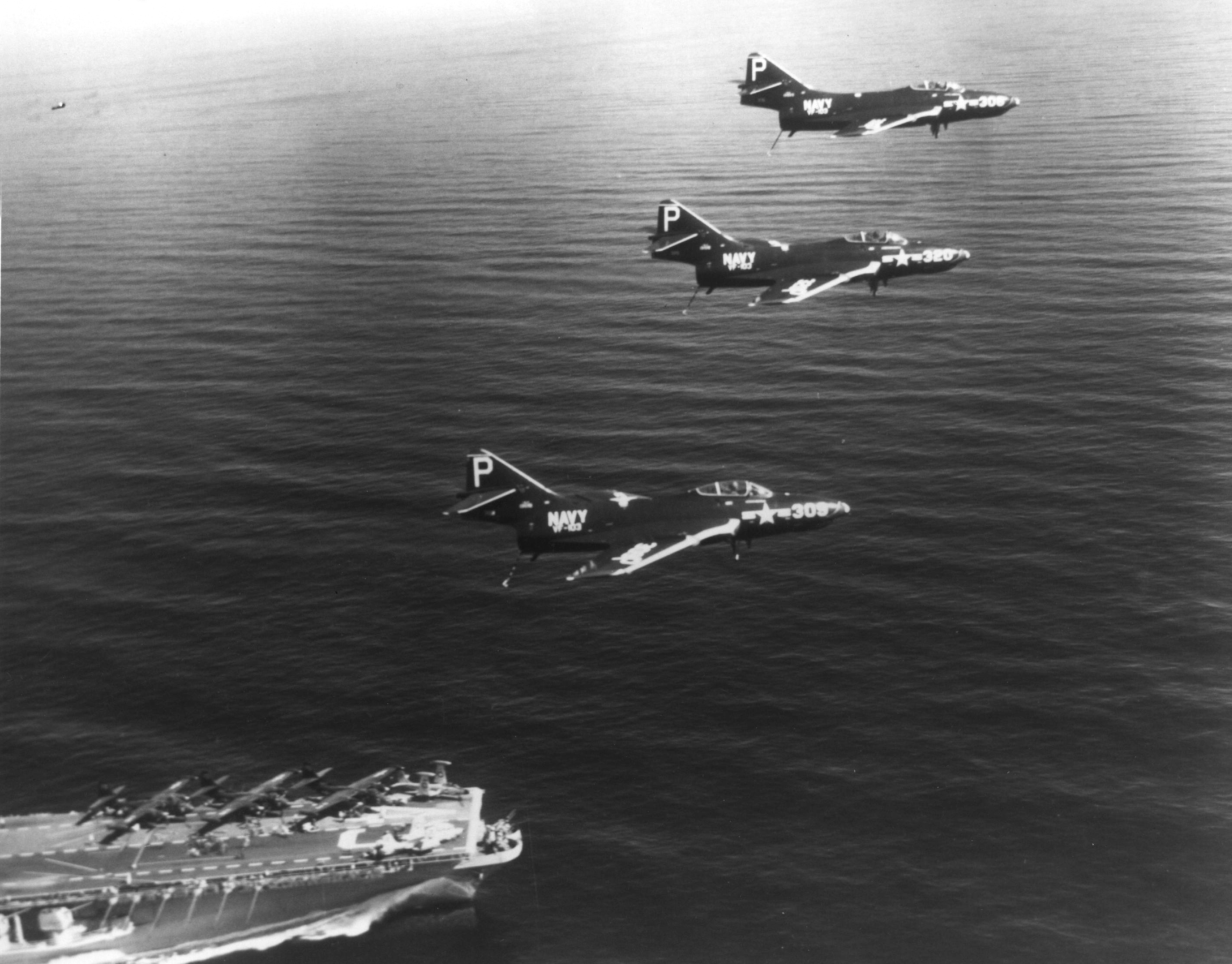 Three U.S. Navy Grumman F9F-6 Cougar of Fighter Squadron VF-103 "Flying Cougars" flying over the deck of the USS Coral Sea (CVA-43). VF-103 was assigned to Carrier Air Group 10 (CVG-10) aboard the Coral Sea for a deployment to the Mediterranean Sea from 7 July to 20 December 1954.